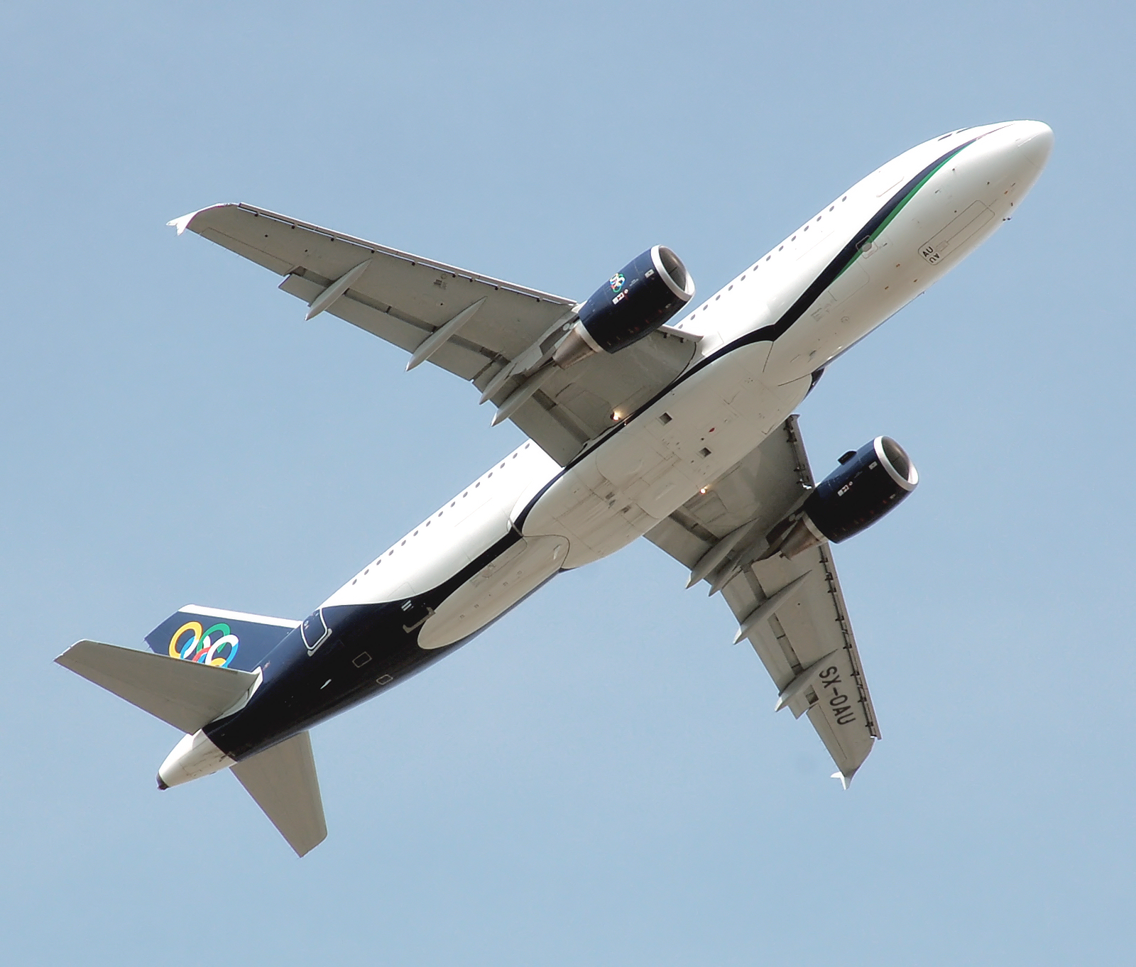 Olympic Air Airbus A320-200 (SX-OAU) takes off from London Heathrow Airport, England.